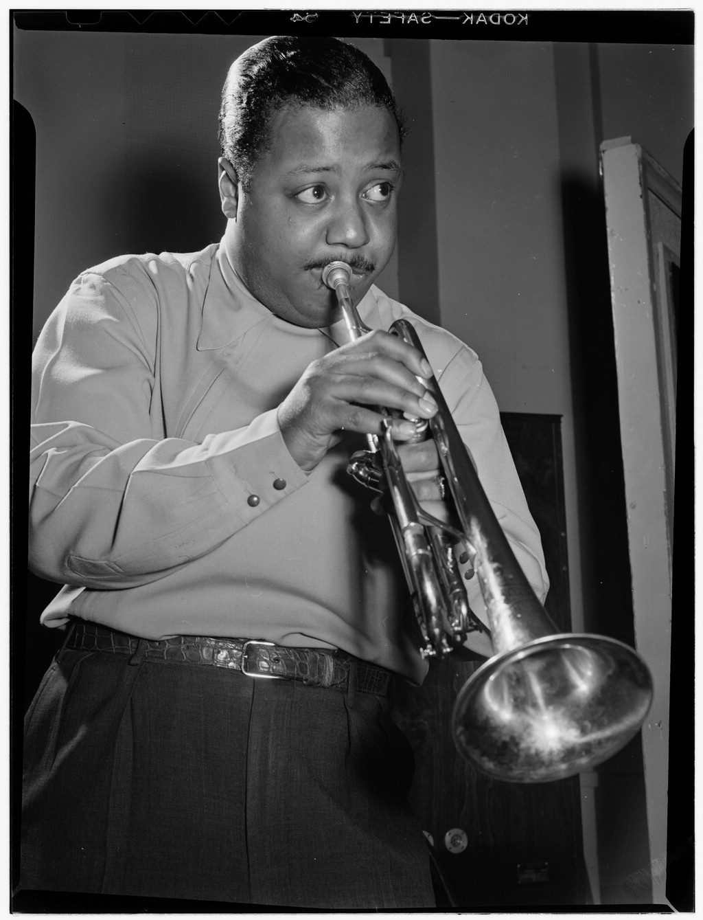 Charlie Shavers, National Studio